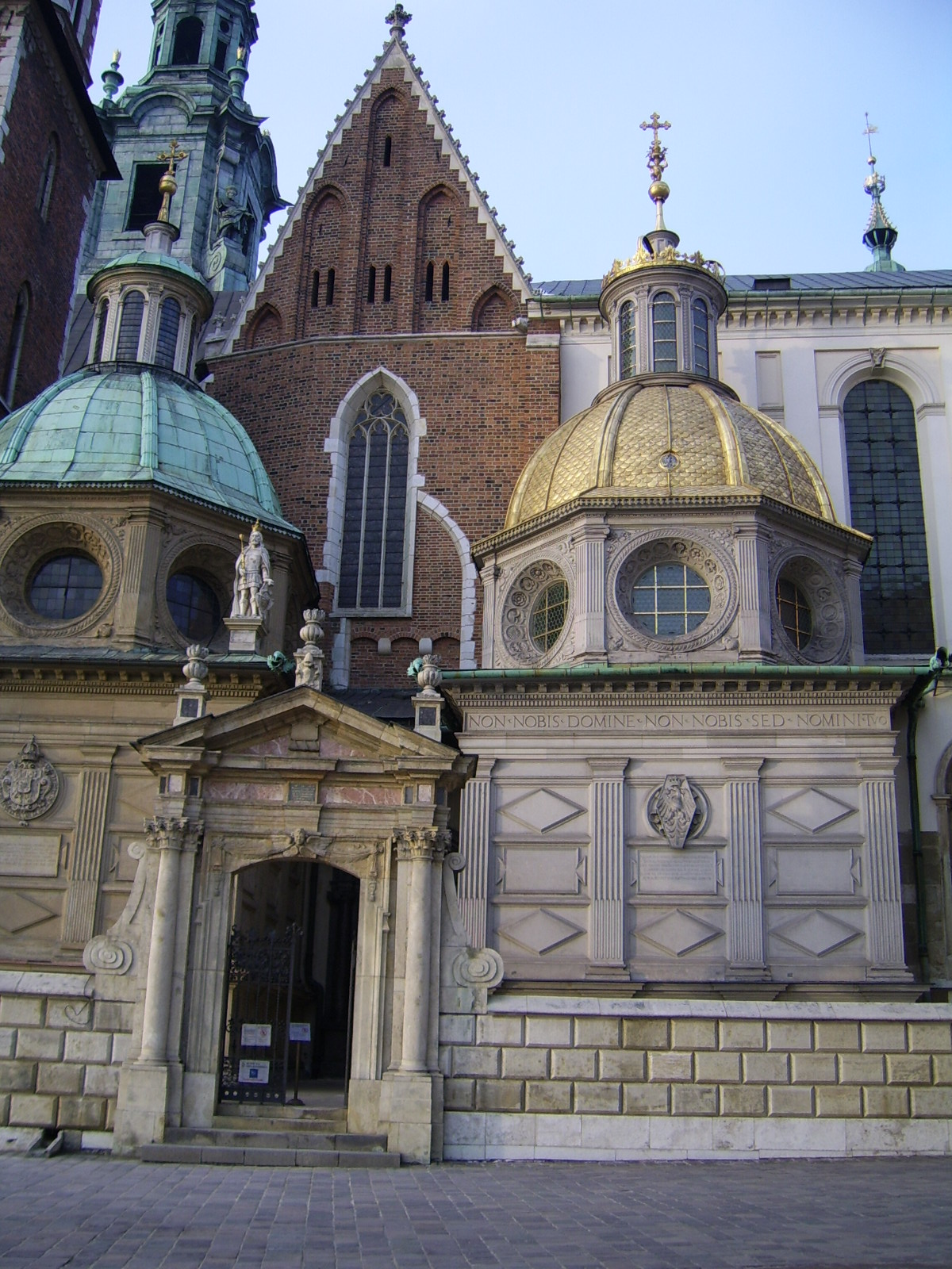 Sigismund Chapel